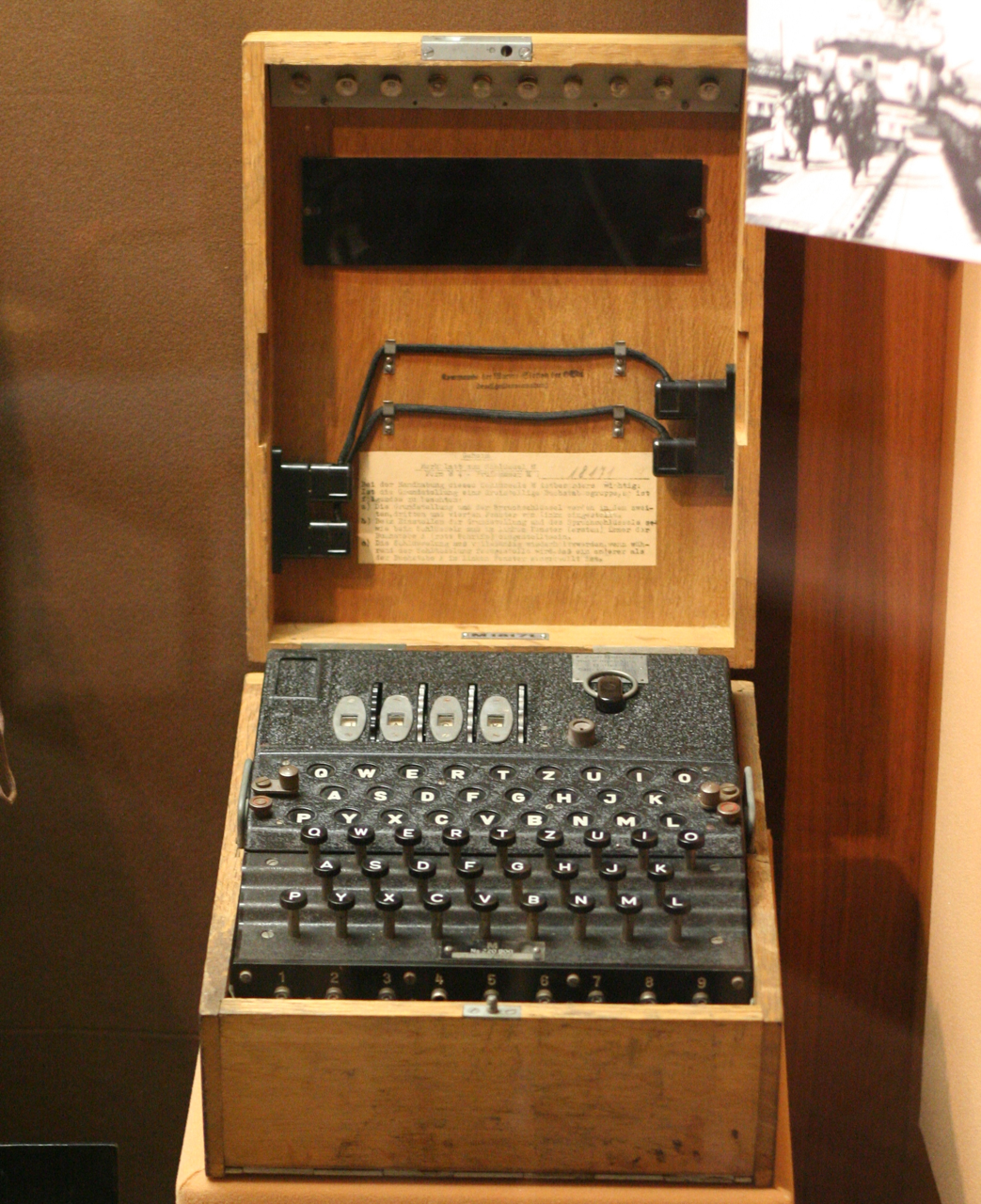 4 rotor enigma machine used by the kriegsmarine on display at the national cryptology museum in Fort Meade, MD